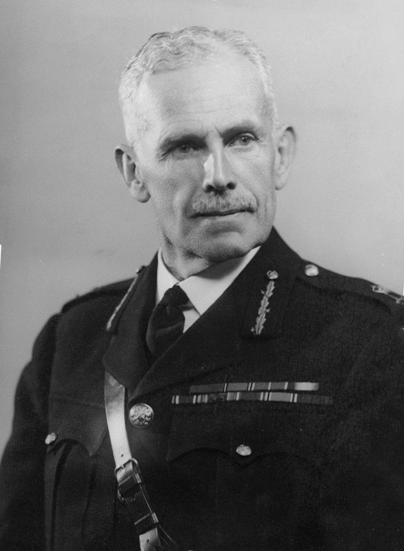 Portrait of General Sir Thomas Hunton